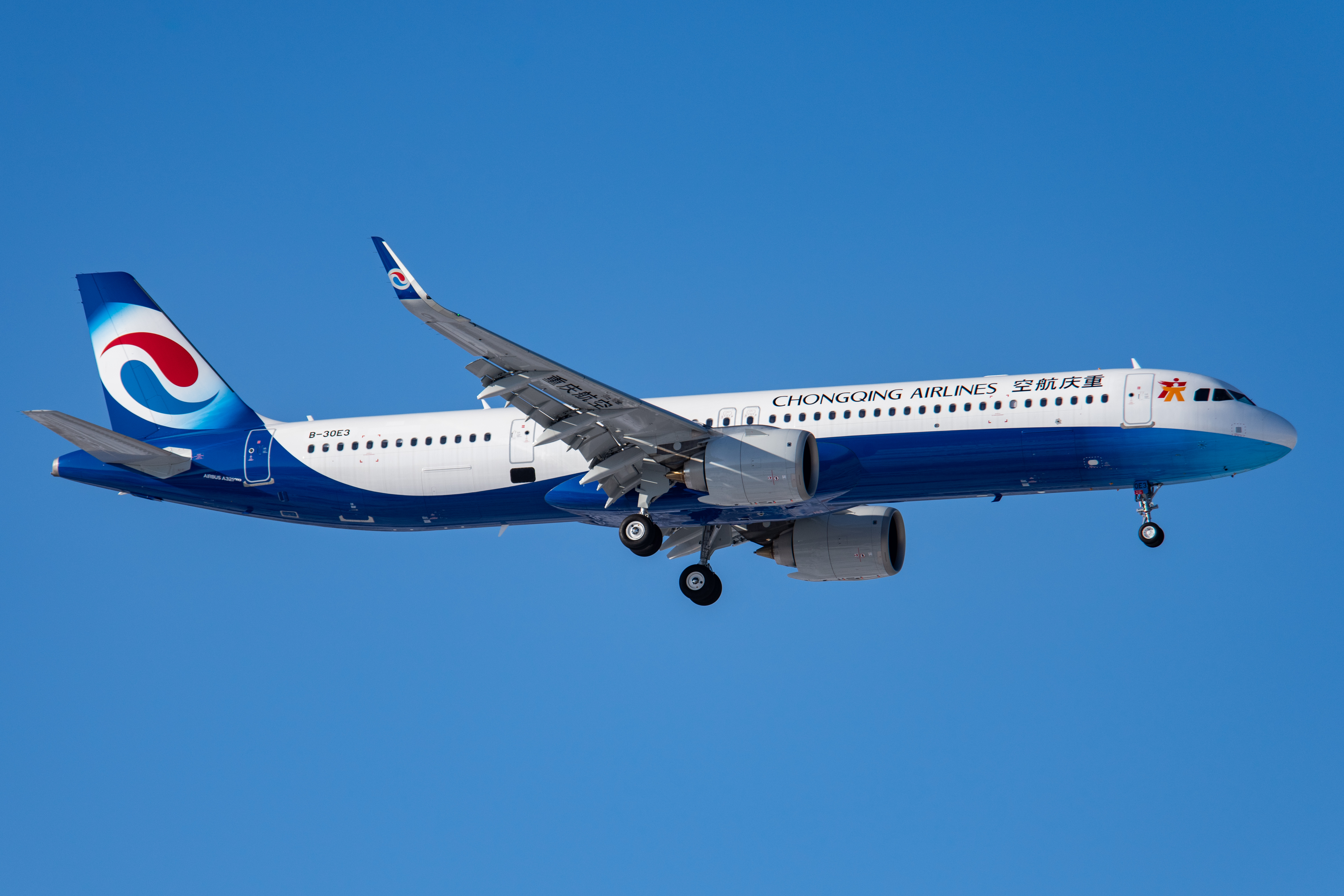 Chongqing 2301 from Chongqing. This is the second day operation of this A321neo in Airbus Cabin Flex configuration, which is the first example of this variant in mainland China.